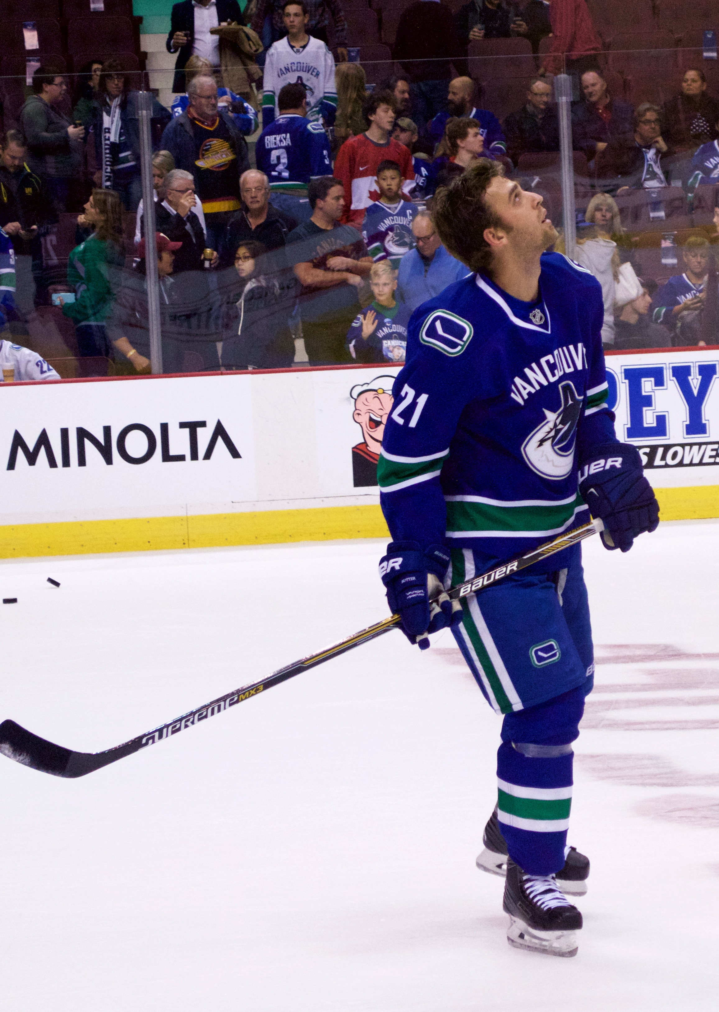 Vancouver Canucks forward Brandon Sutter during pre-game warmup on October 22, 2015.